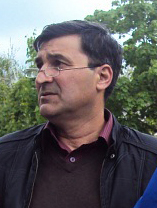 Leonid Nikolaenko